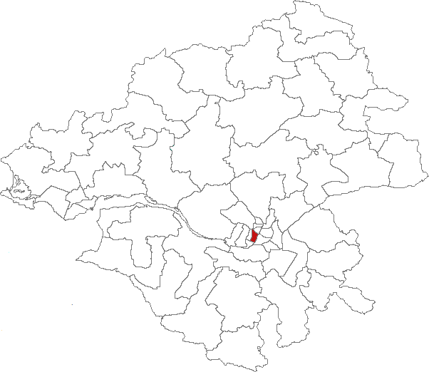 Map of canton of France : Canton de Nantes-4, Loire-Atlantique, France